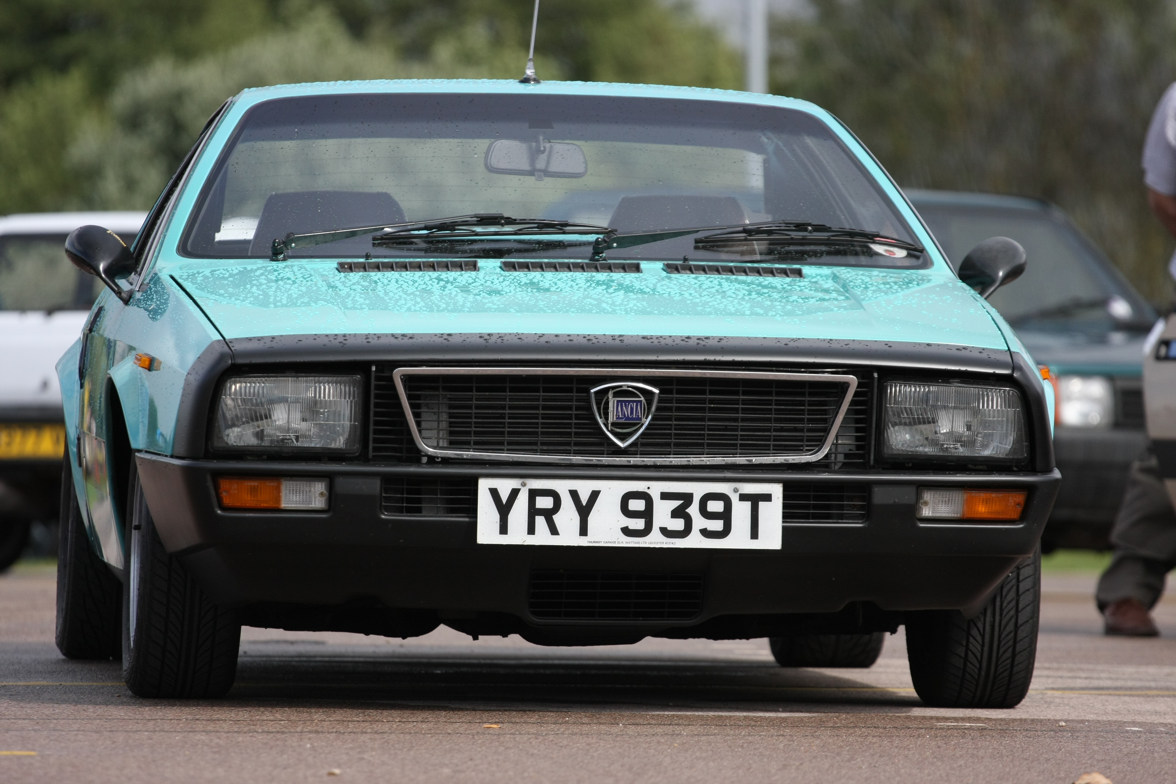 Auto Italia Autumn Italian Car Day Heritage Motor Centre Gaydon 2010